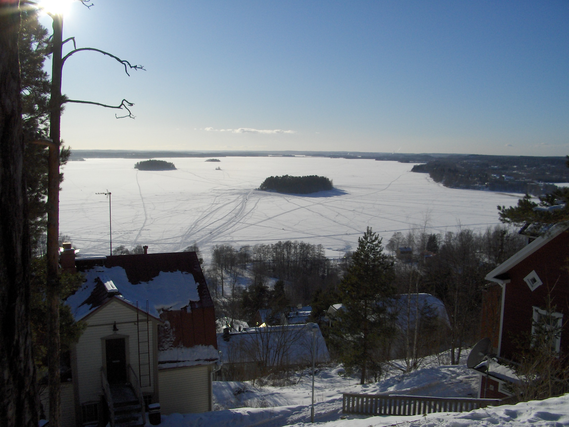 Pyhäjärvi lake from Pispala